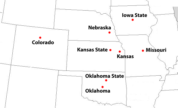 Map detailing the locations of the schools of the Big 8 conference.